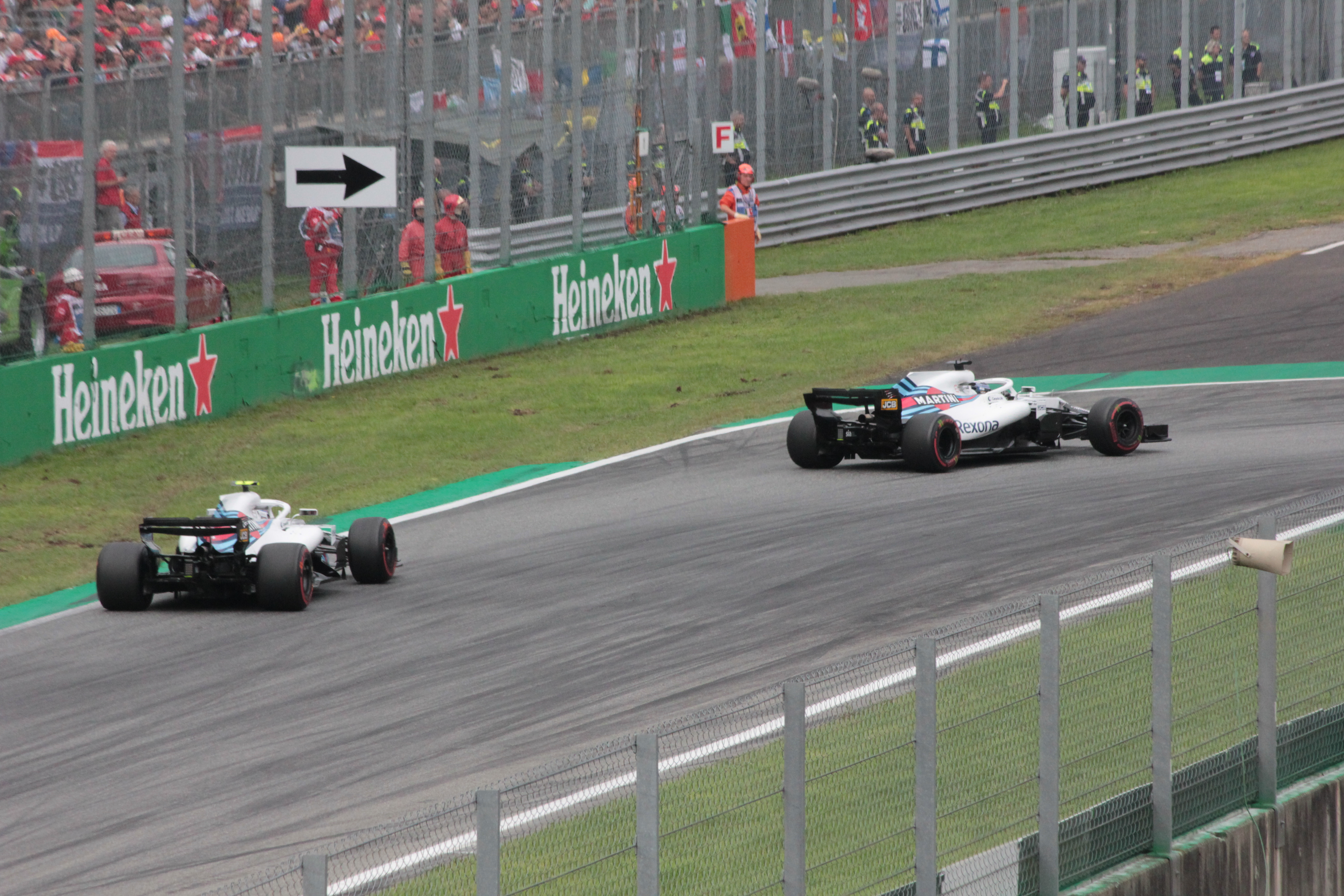 Sergey Sirotkin and Lance Stroll in action during 2018 Italian Grand Prix.